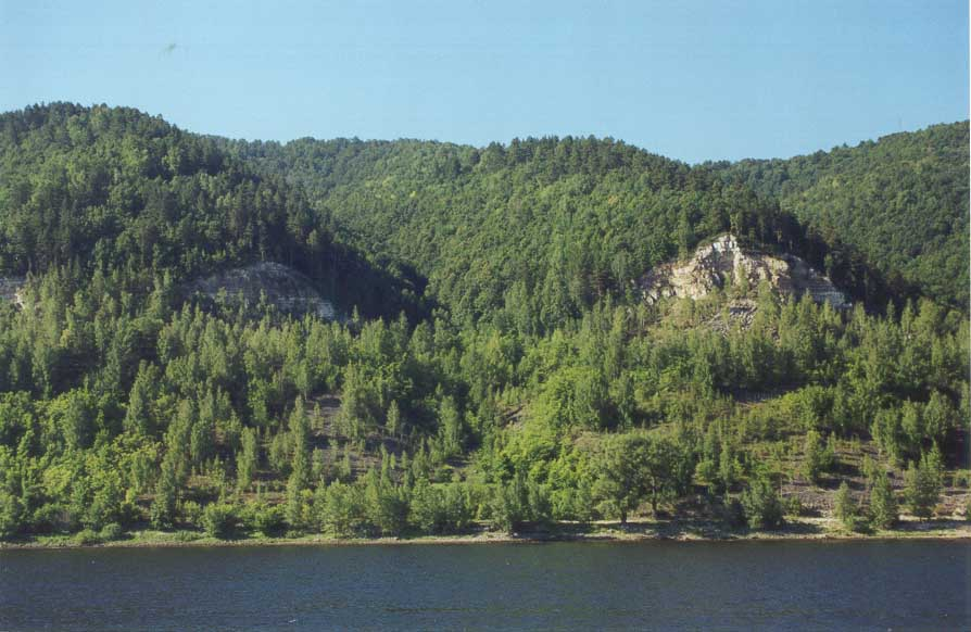 Zhiguli Mountains. Photo by Pavel Yegorov. From No rights reserved as per